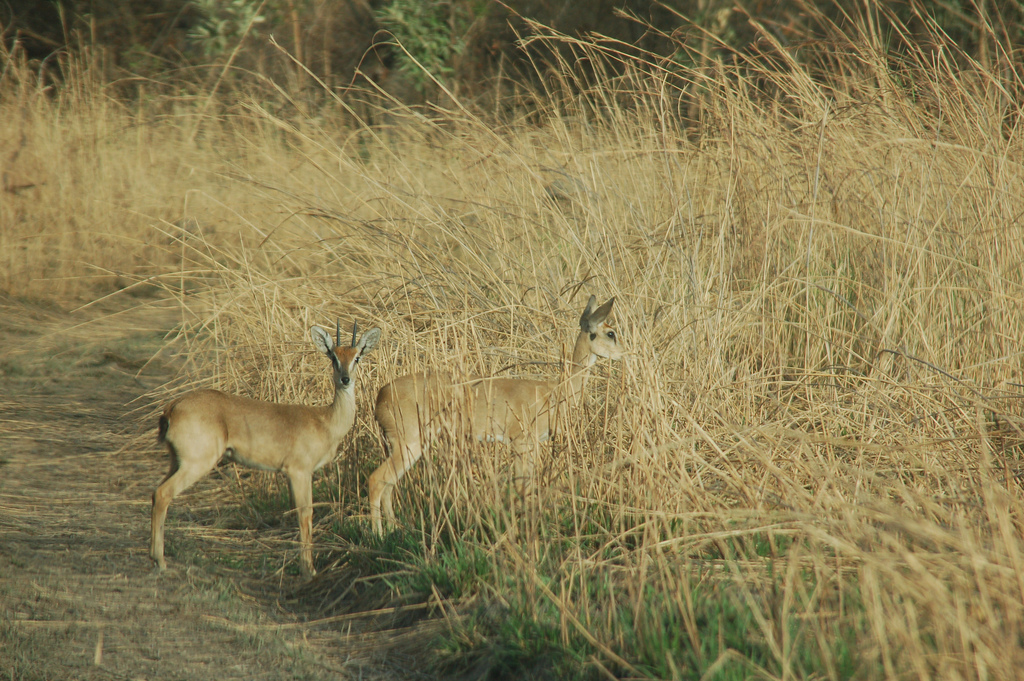 Oribi photographed in the Niger section of the Parc W du Niger complex of protected areas.